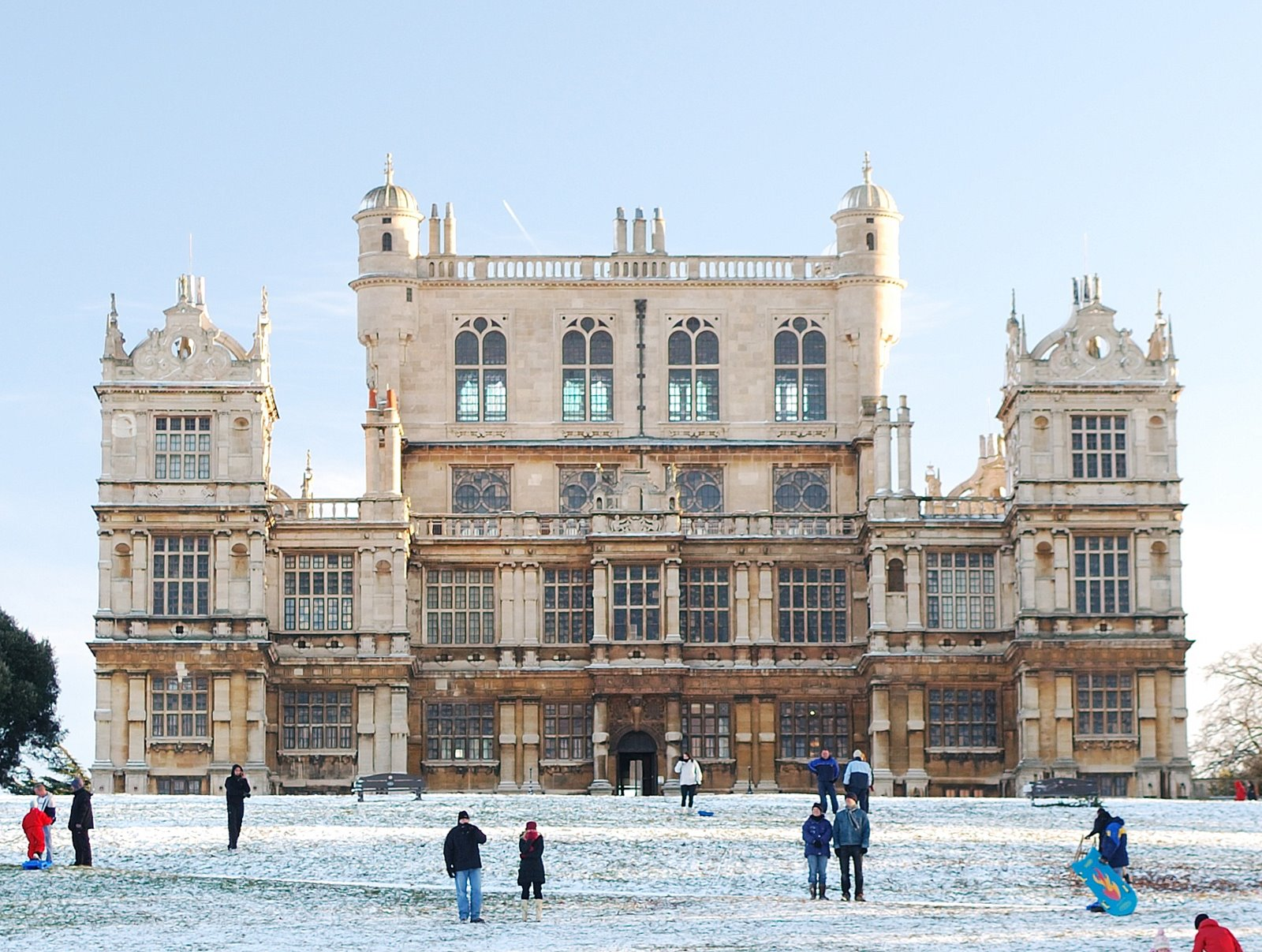 Wollaton Hall in Nottingham, England during the snowfall of November/December 2010